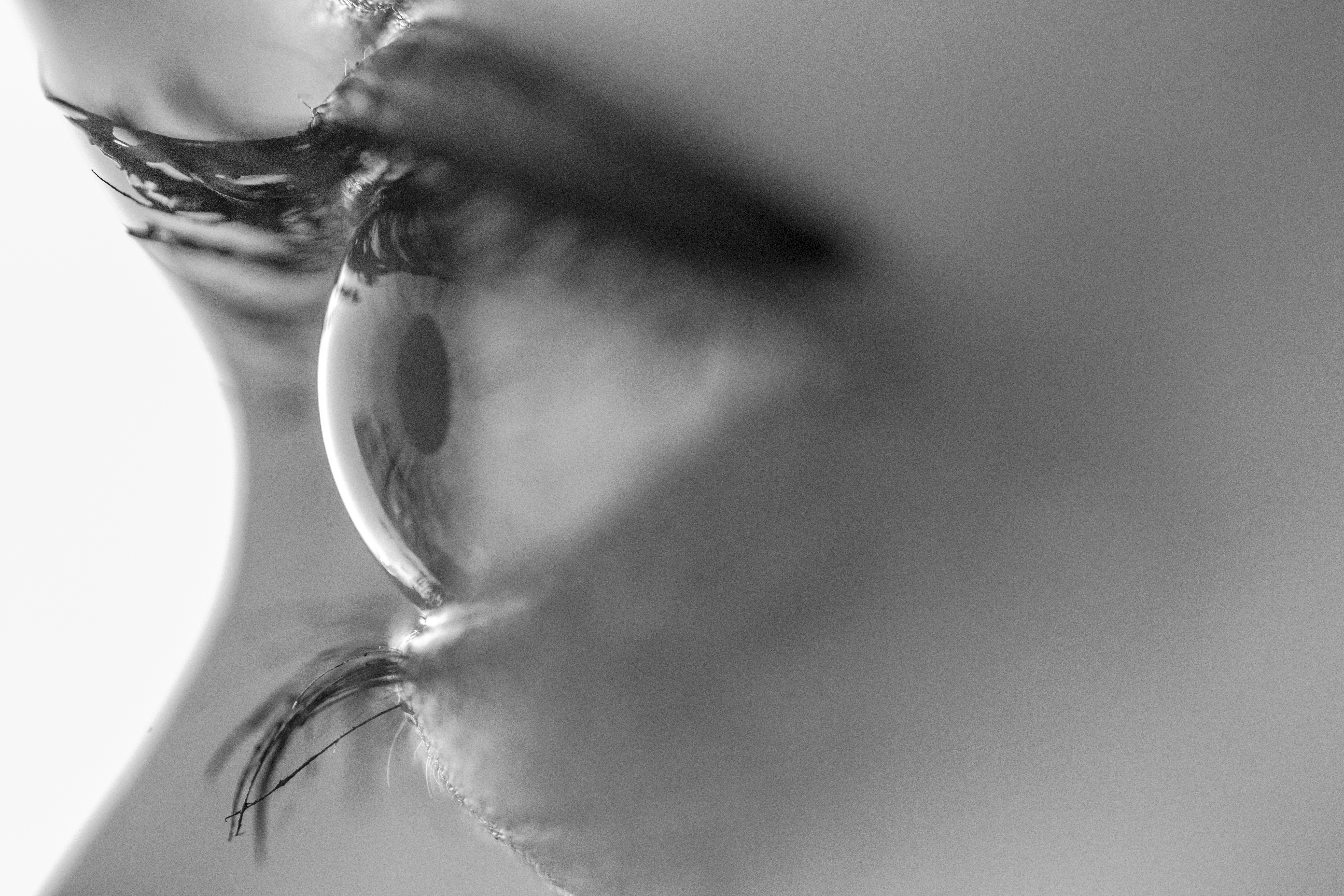 Creative Commons Makro Eye 2017